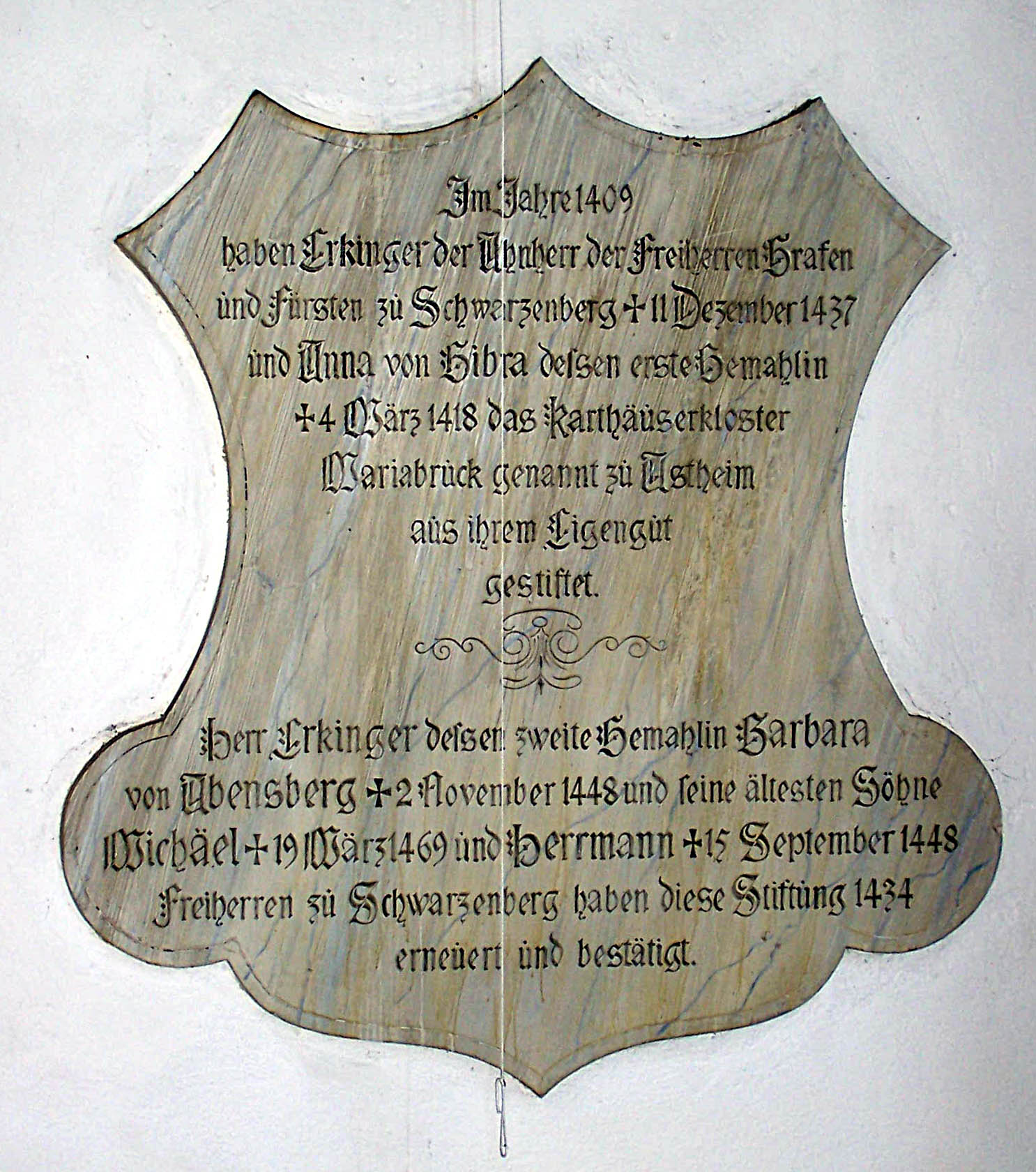 Plaque in interior of chapel describing founding